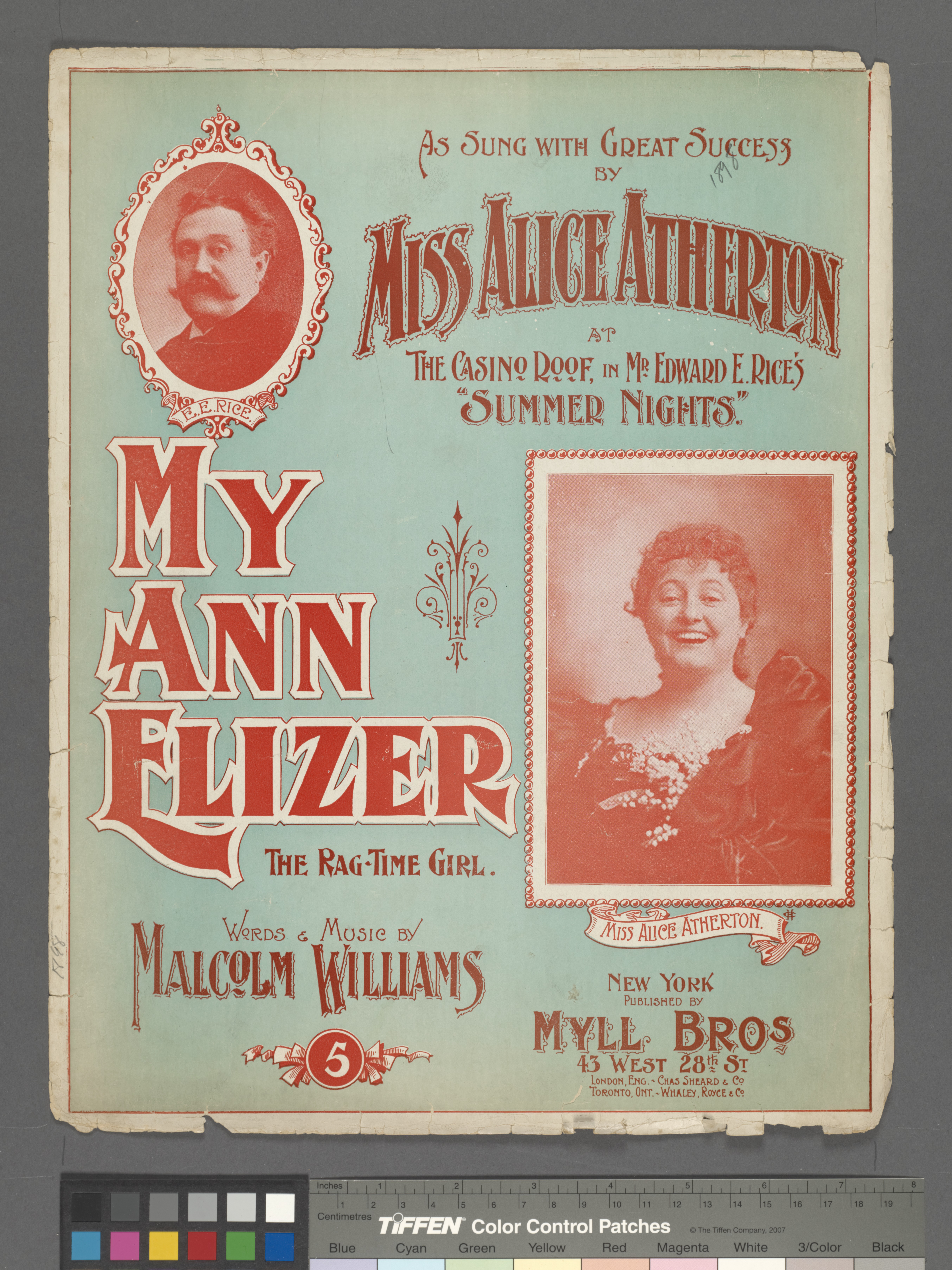 Descriptive subtitle: The rag-time girl. On cover: Miss Alice Atherton; Edward E. Rice. Statement of responsibility : words and music by Malcolm Williams.